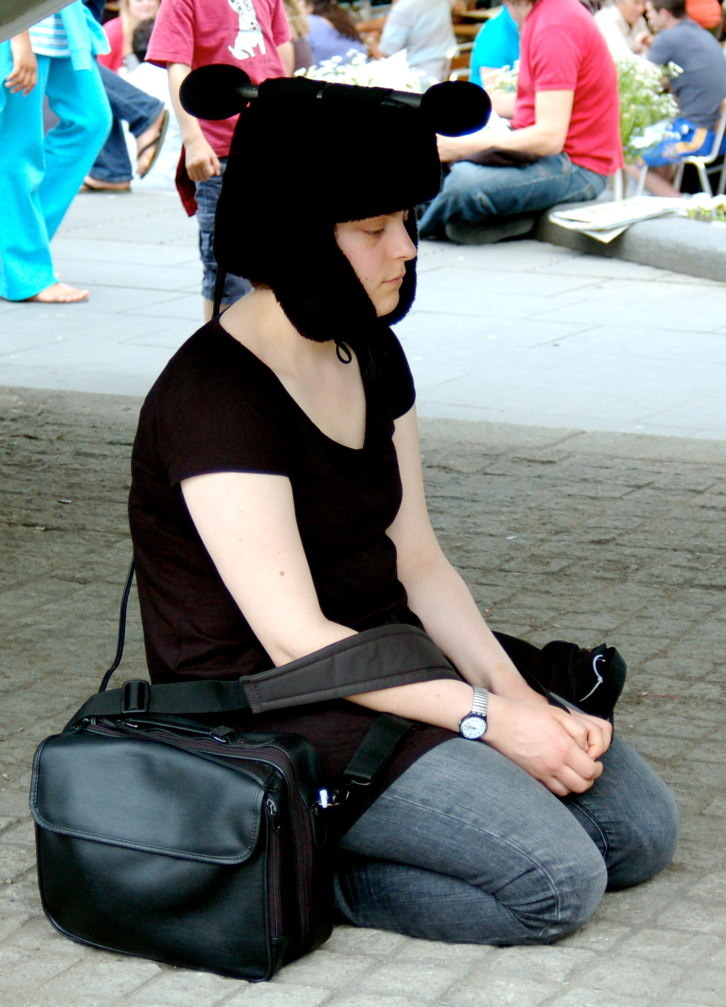 She was sitting underneath a set of stairs meditating, with microphones strapped to her head. Don't ask me, I don't know either.